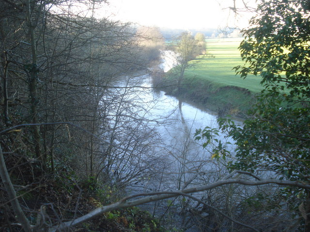 River Teme near Bransford View westwards from the top of the old railway cutting.